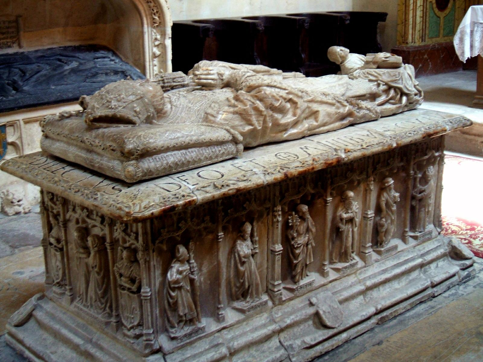 Sepulcro del Obispo Alonso de Cartagena, en la Capilla de la Visitación de la Catedral de Burgos, España.